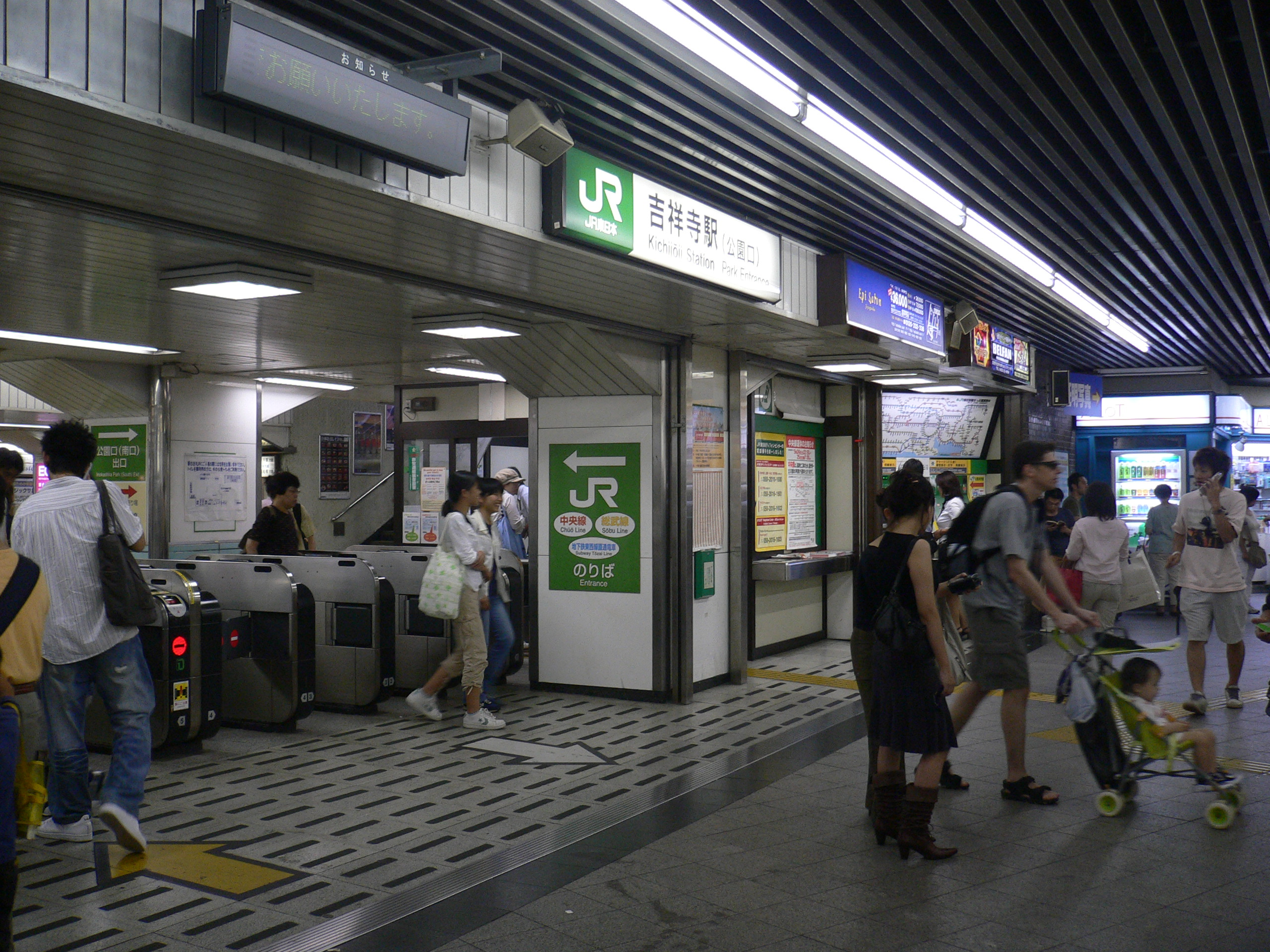 JR East Kichijoji Station entrance